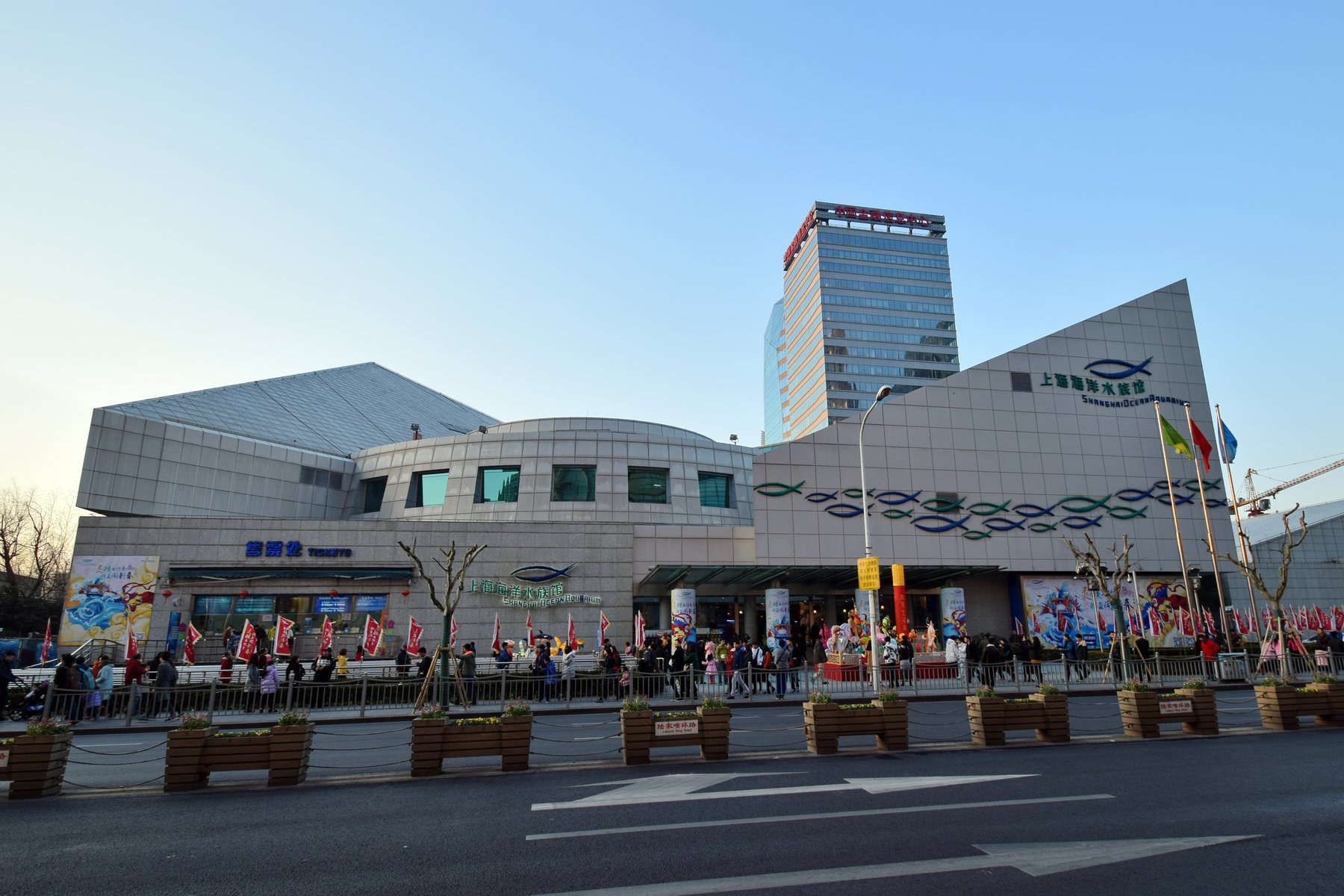 Shanghai Ocean Aquarium